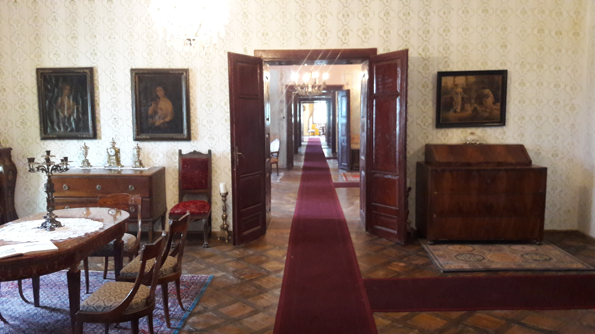 rooms interior